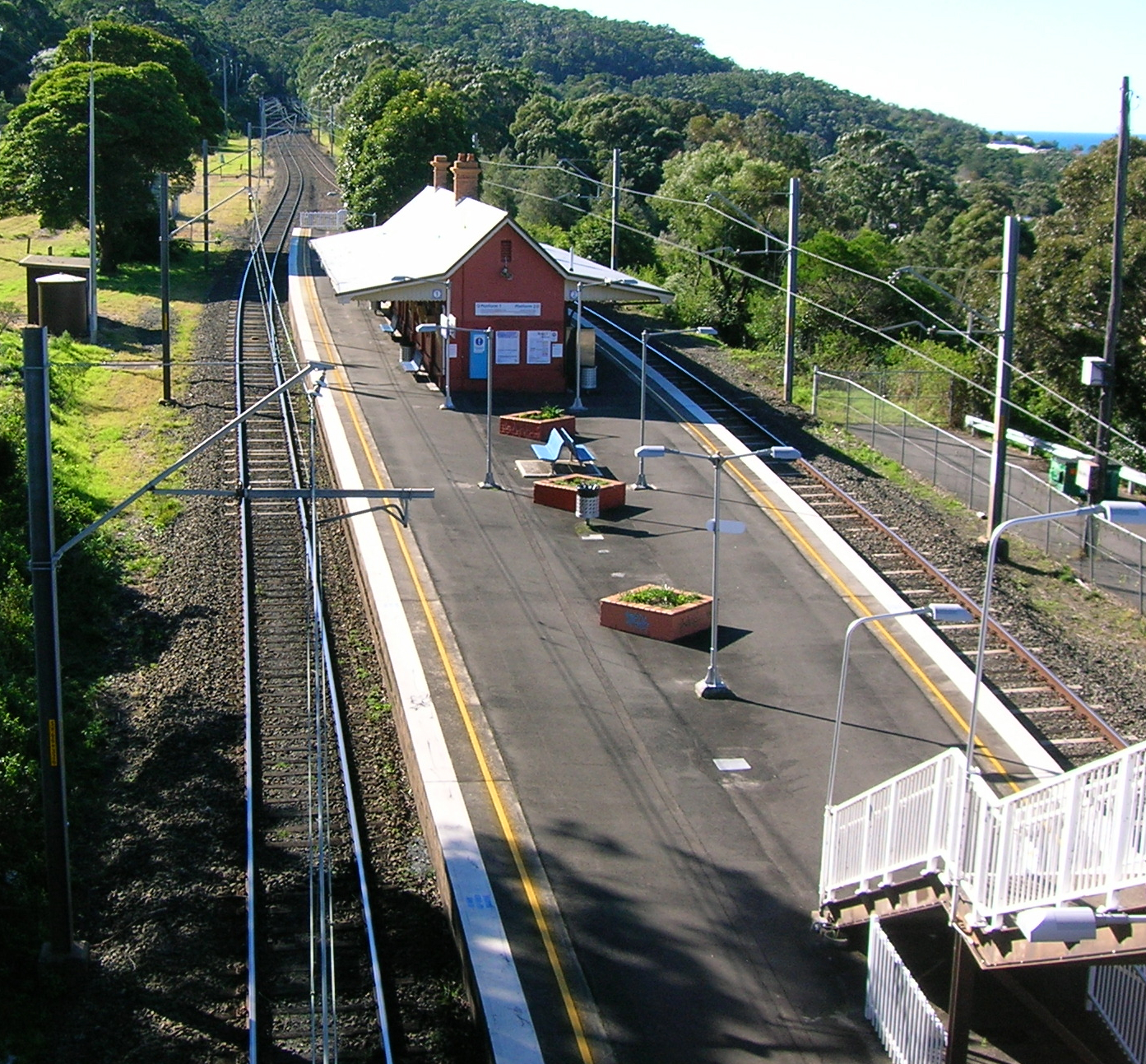 View north to the station, from the road bridge.